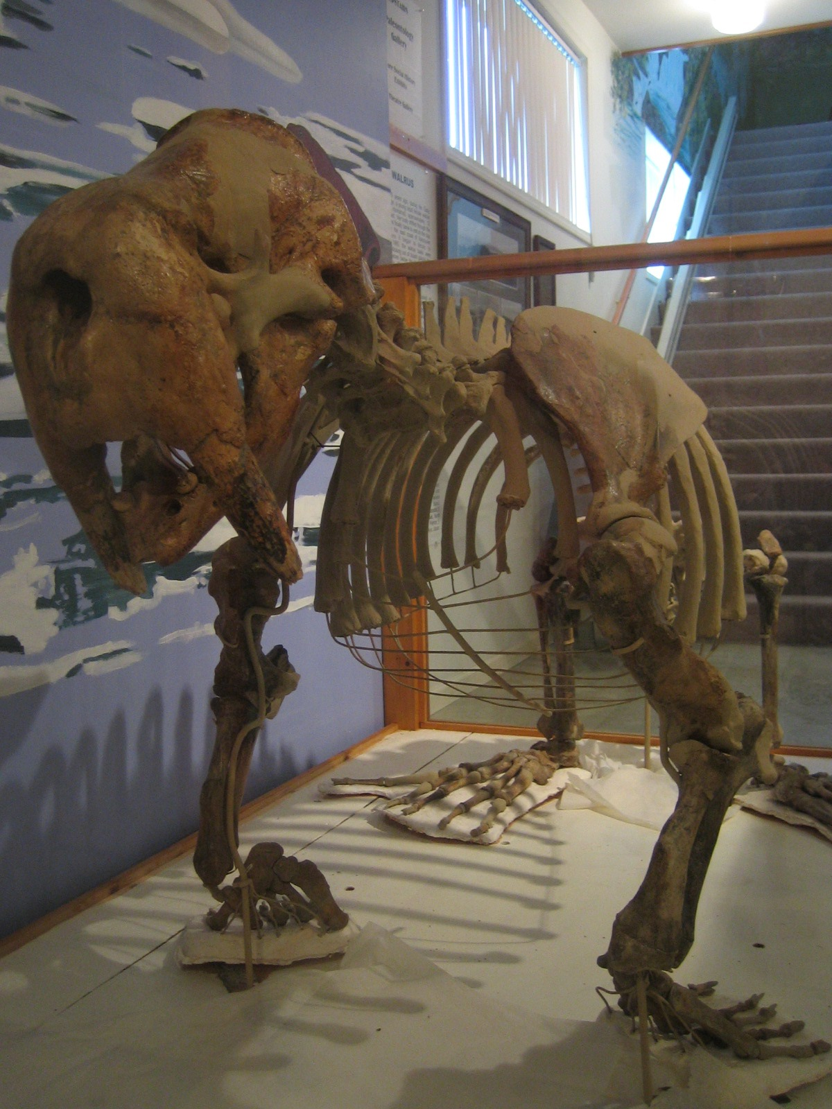 Pleistocene walrus at Qualicum Beach Paleontology Museum, BC.